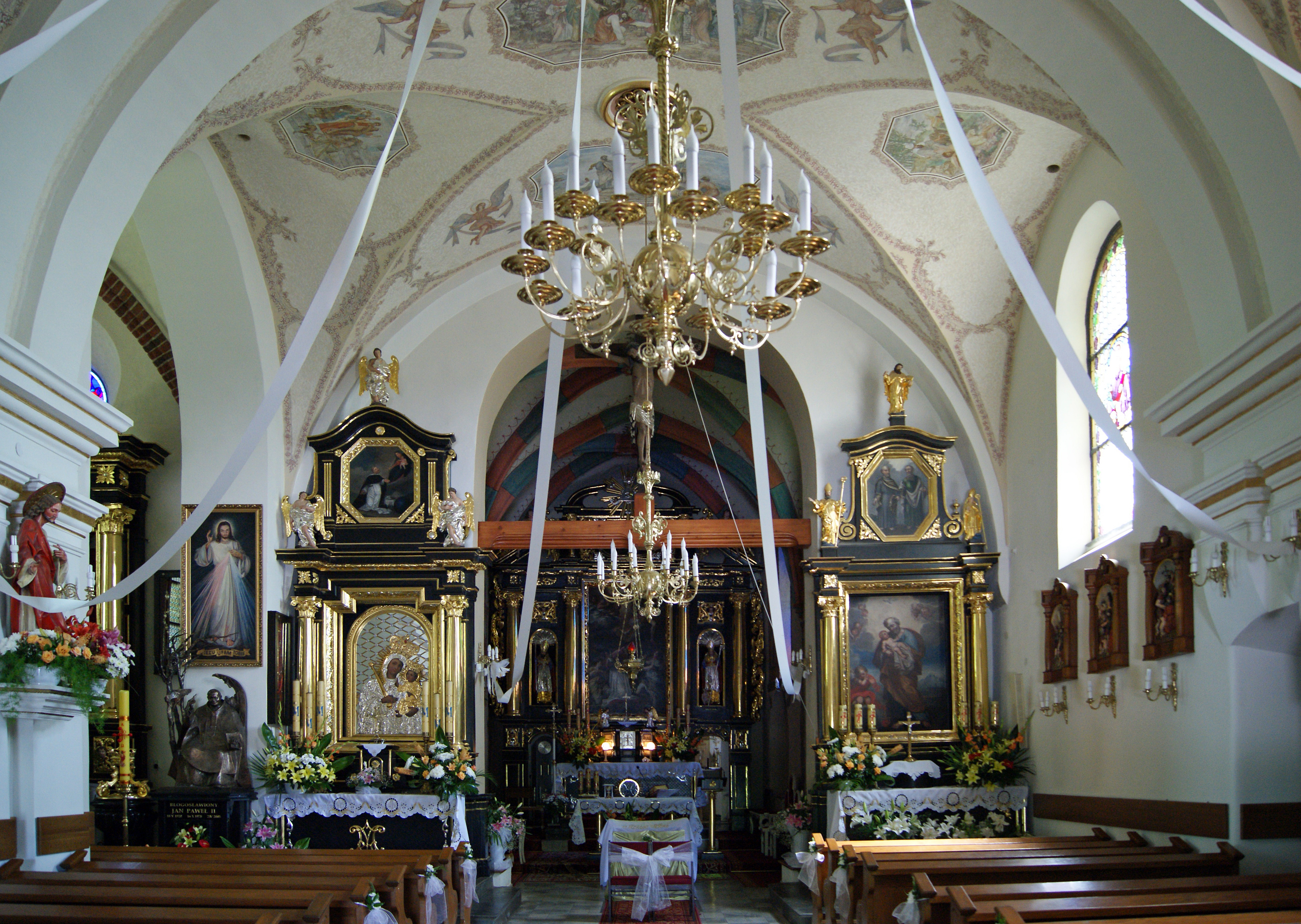 StGregory the Dialogist Church (interior), 40 Jeziorko street, Ruszcza,Nowa Huta, Krakow, Poland